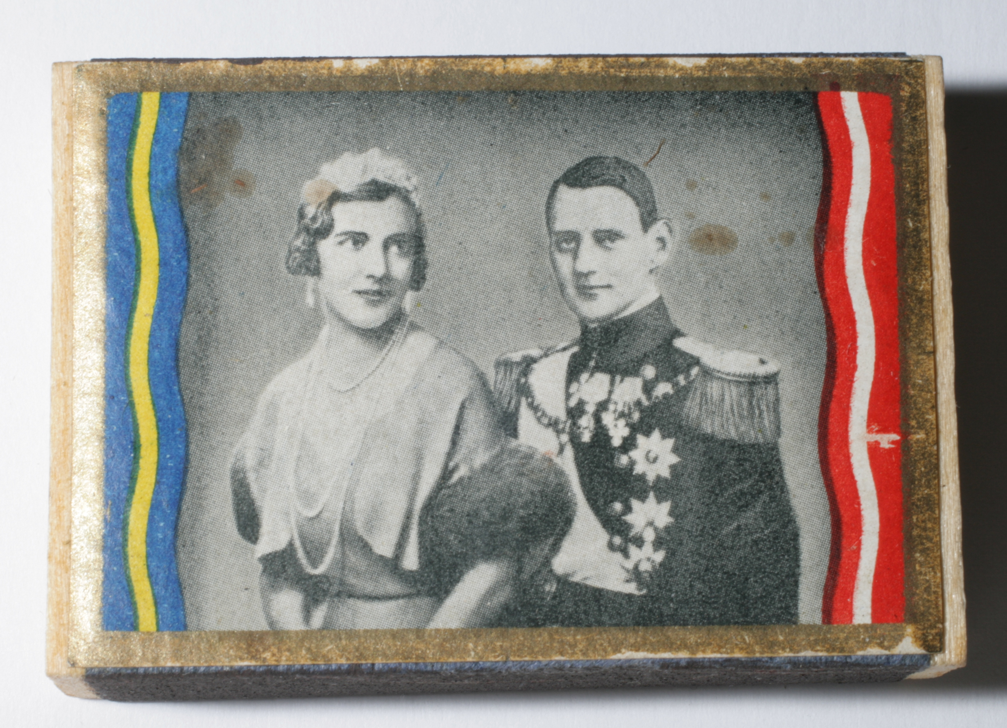 Matchbox with a picure celebrating the wedding of princess Ingrid and crown prince Frederik 1935.